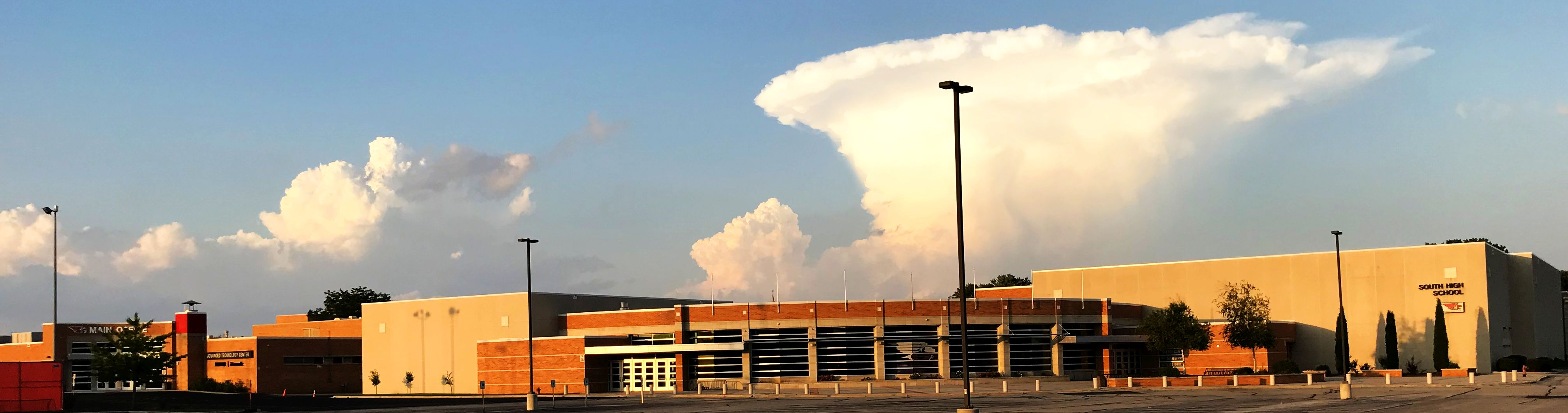 A current picture of Sheboygan South High School's main entrance.